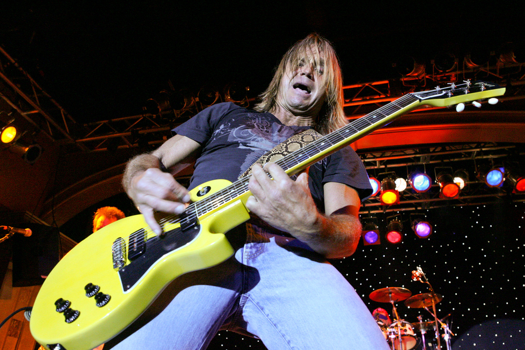 Charlie Huhn, lead singer of Foghat, performing at Foxwoods Casino in Ledyard, Connecticut.